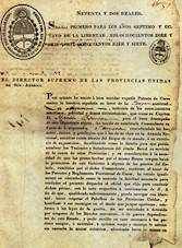 A copy of the letter of marque issued to corsair Hippolyte de Bouchard on June 27, 1817 by the Argentine government, authorizing him to prey on Spanish commerce.